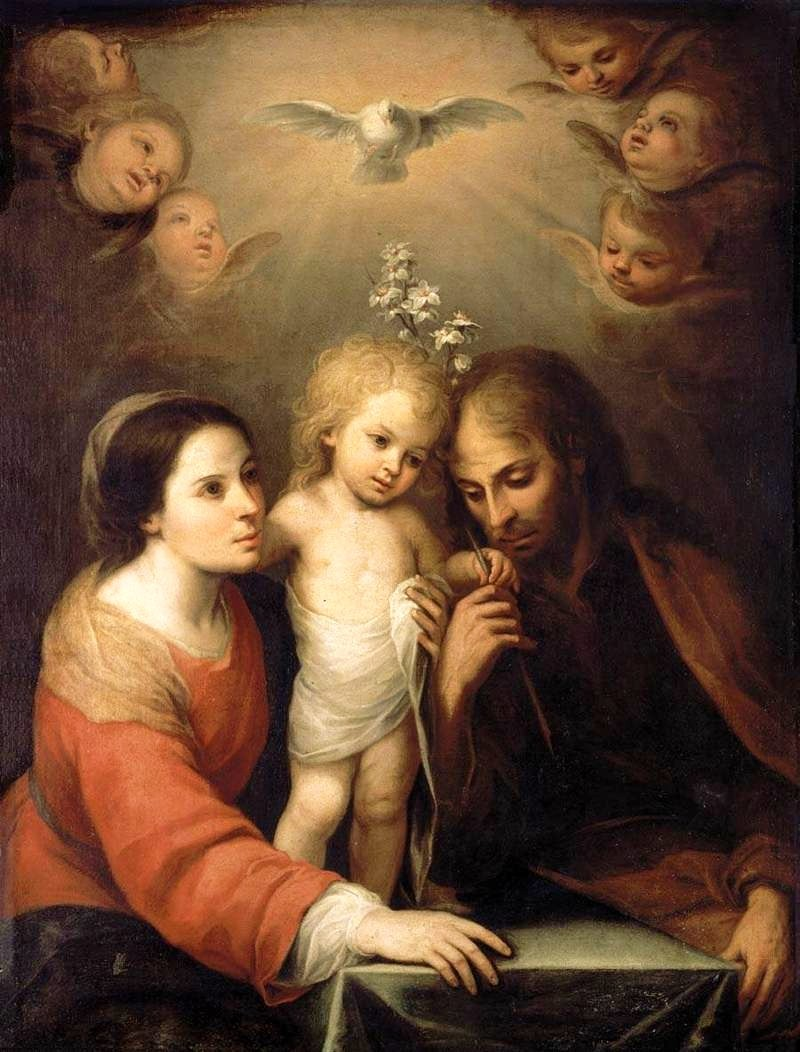 Mary, Joseph, and child Jesus